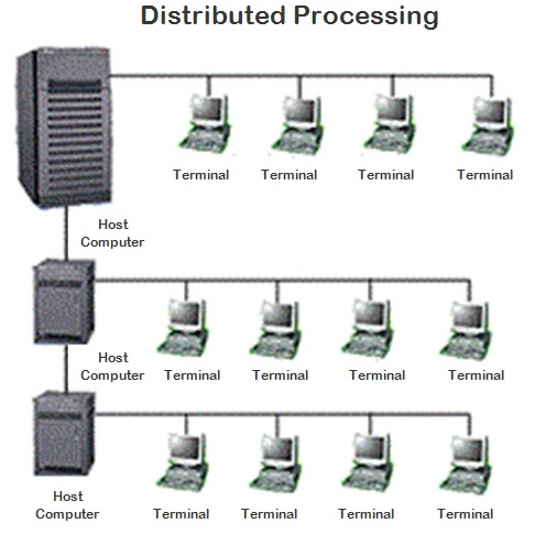 this is a distributed processing model in computer network